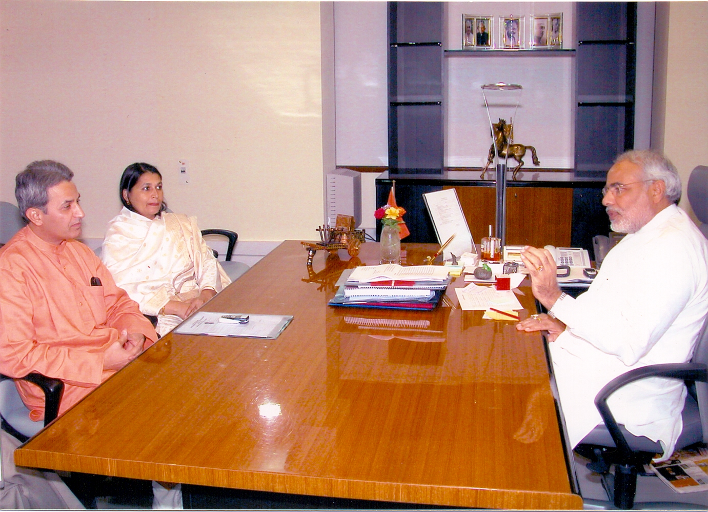 Afroz Ahmad discussing Narmada Rehabilitation issue with Shri Narendra Modi on July 22 ,2006.